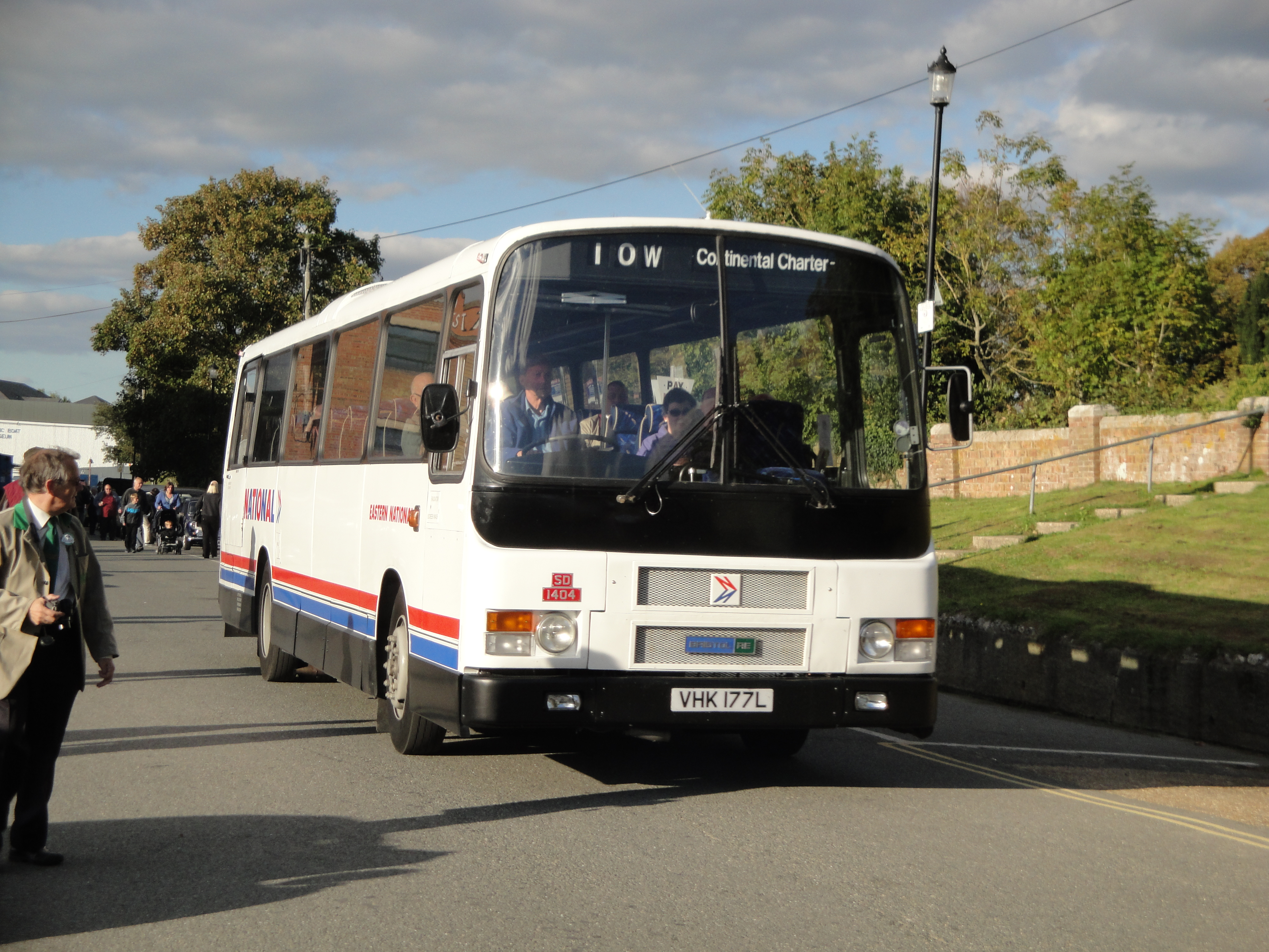 Eastern National 1404 (VHK 177L), a Bristol RE/Eastern Coach Works bus in Newport Quay, Isle of Wight for the Isle of Wight bus museum's October 2010 running day.